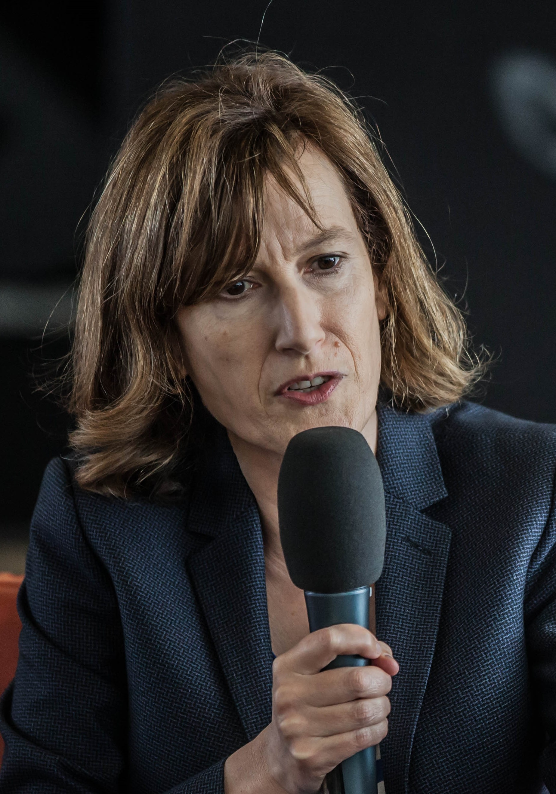 Joanna Hogg, Director's Talk, Filmfestival Linz, 2014